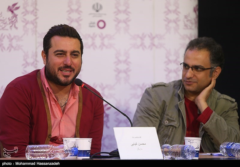 Mohsen Kiai in the press conference of Barcodefilm(Persian: بارکد) at the 34th Fajr Film Festival.